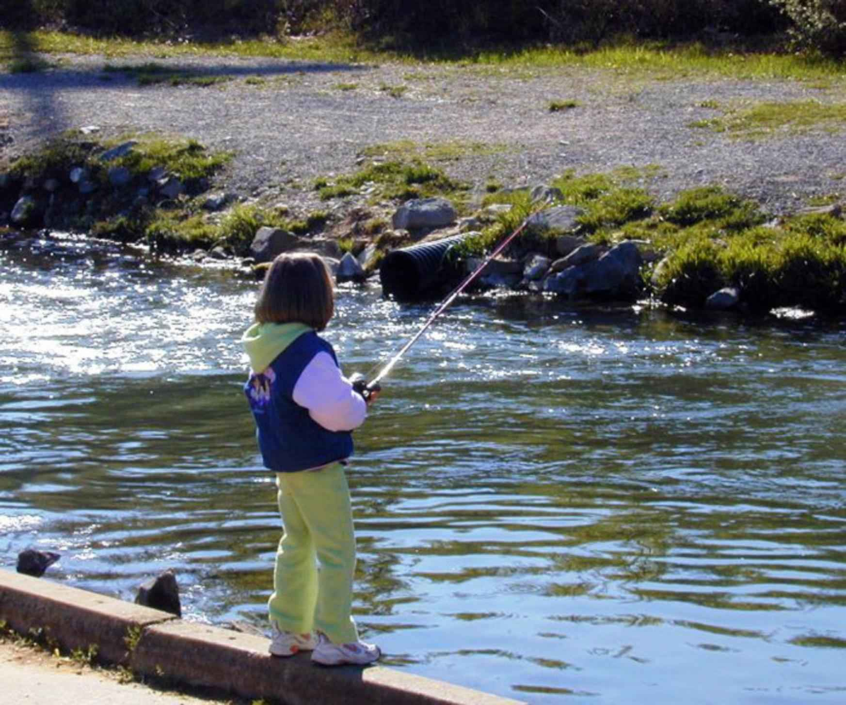 Image title: Child fishes in stream Image from Public domain images website